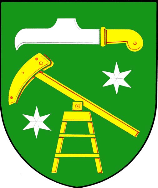 Municipal coat of arms of Lužice village, Hodonín District, Czech Republic.